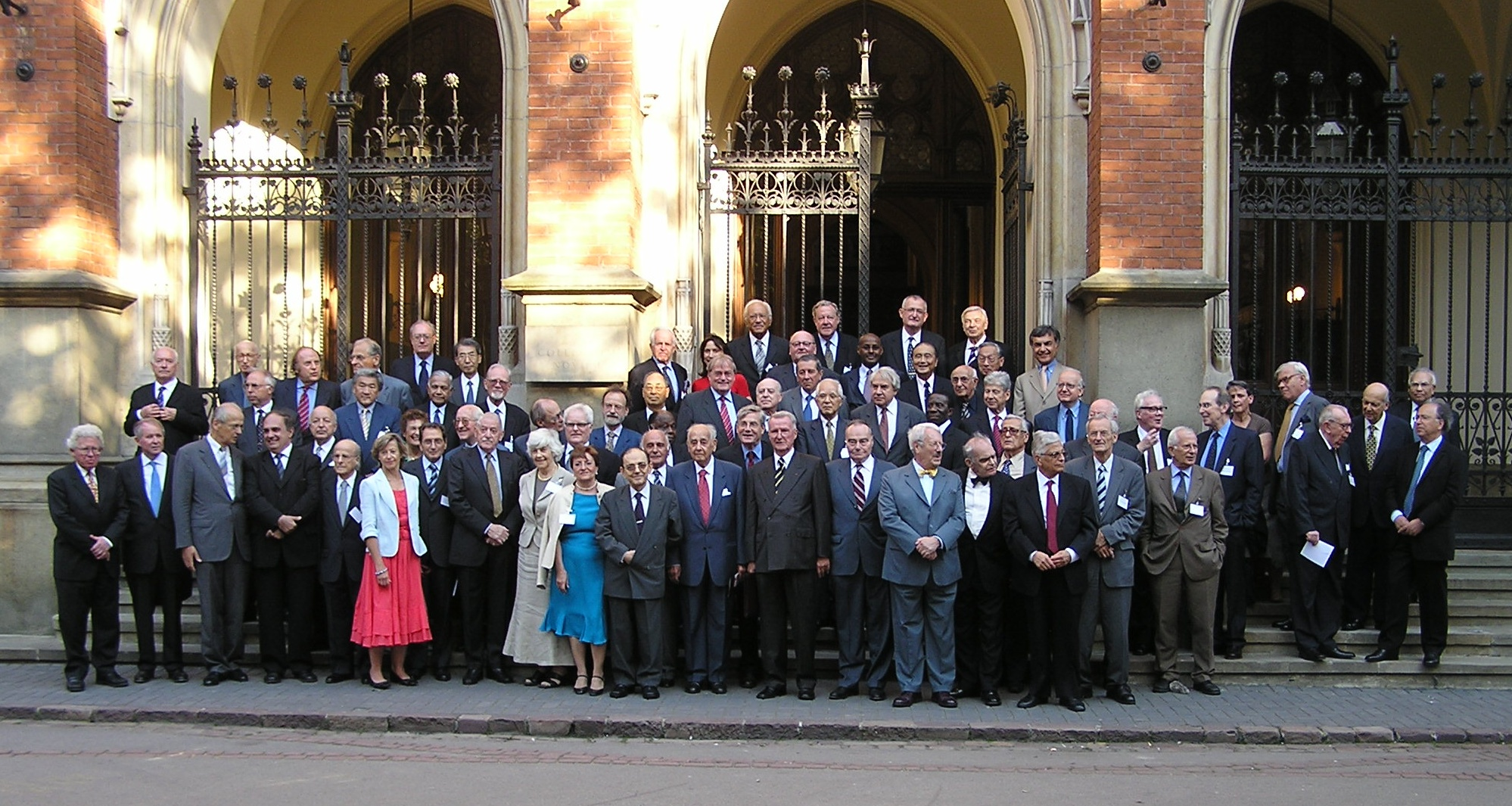 Members of the Institut de droit international during Krakow Session (2005)